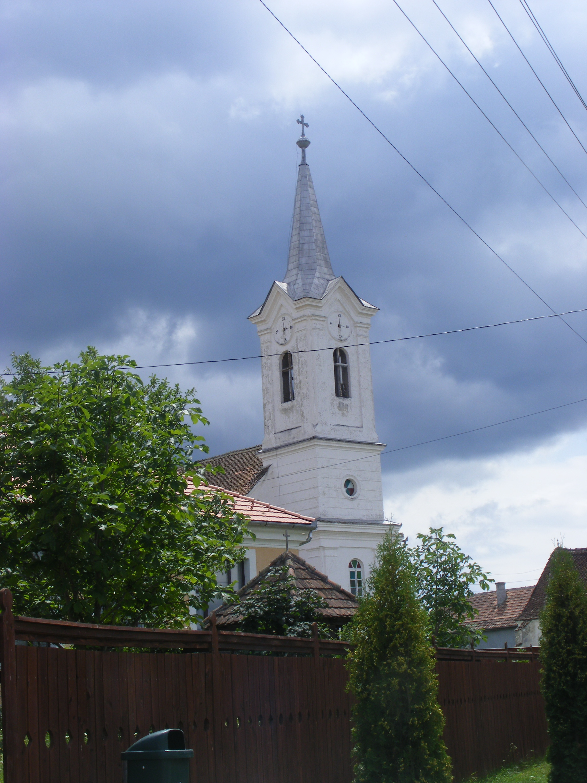 The romano catholic church in Lăzăreşti (Lázárfalva)